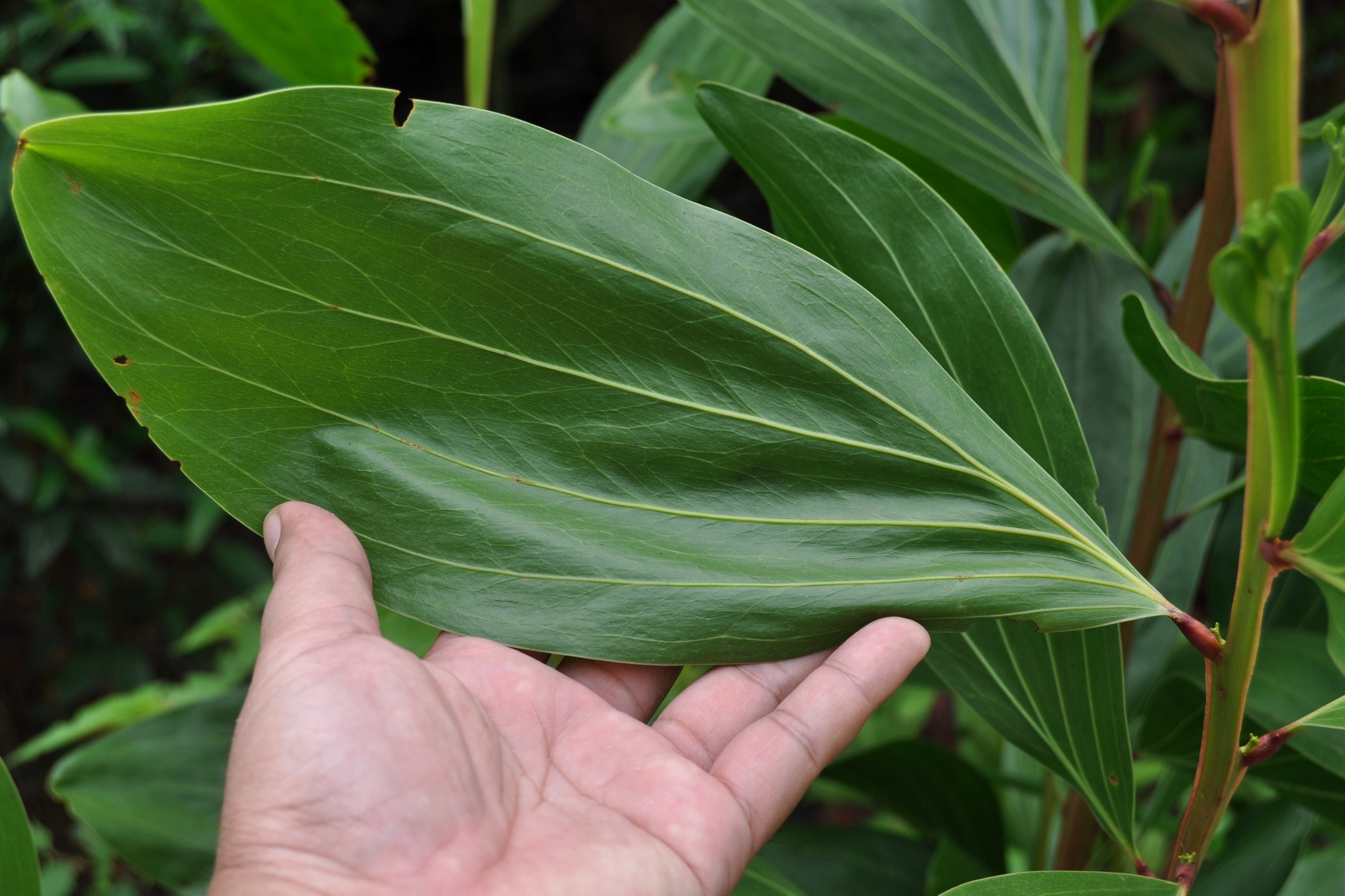 Leaf stalk of Acacia mangium flatten, forming a shape known as phyllodus. Pelalawan, Riau, Indonesia.